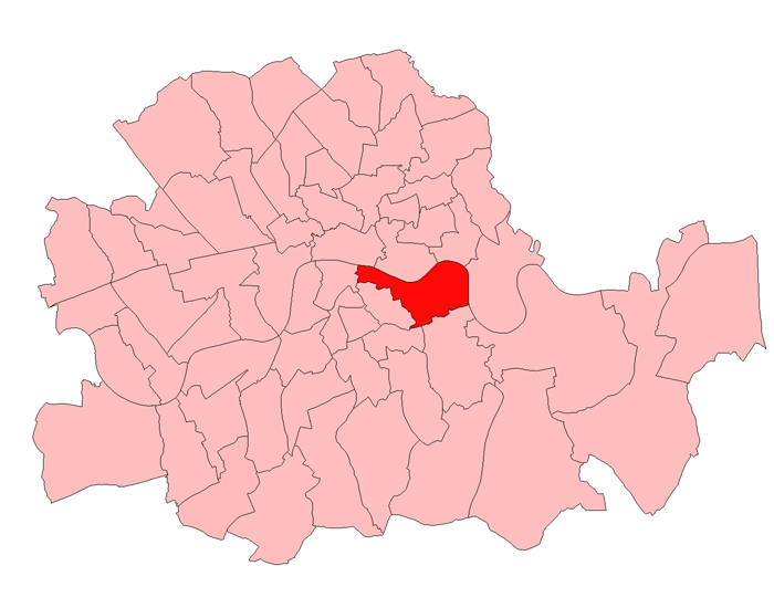 A map of Rotherhithe constituency within the London County Council area, as it existed from 1918 to 1949.